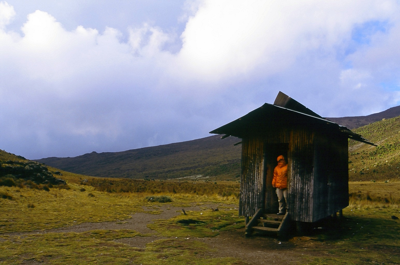 The Liki North Hut in the Liki Valley on Mount Kenya.